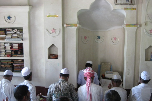 Inside the jama masjid at Taltoli during prayers (sal'aah)